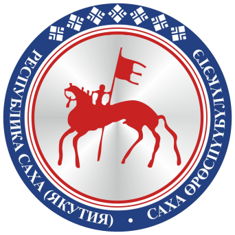 Coat of arms of the Republic of Sakha